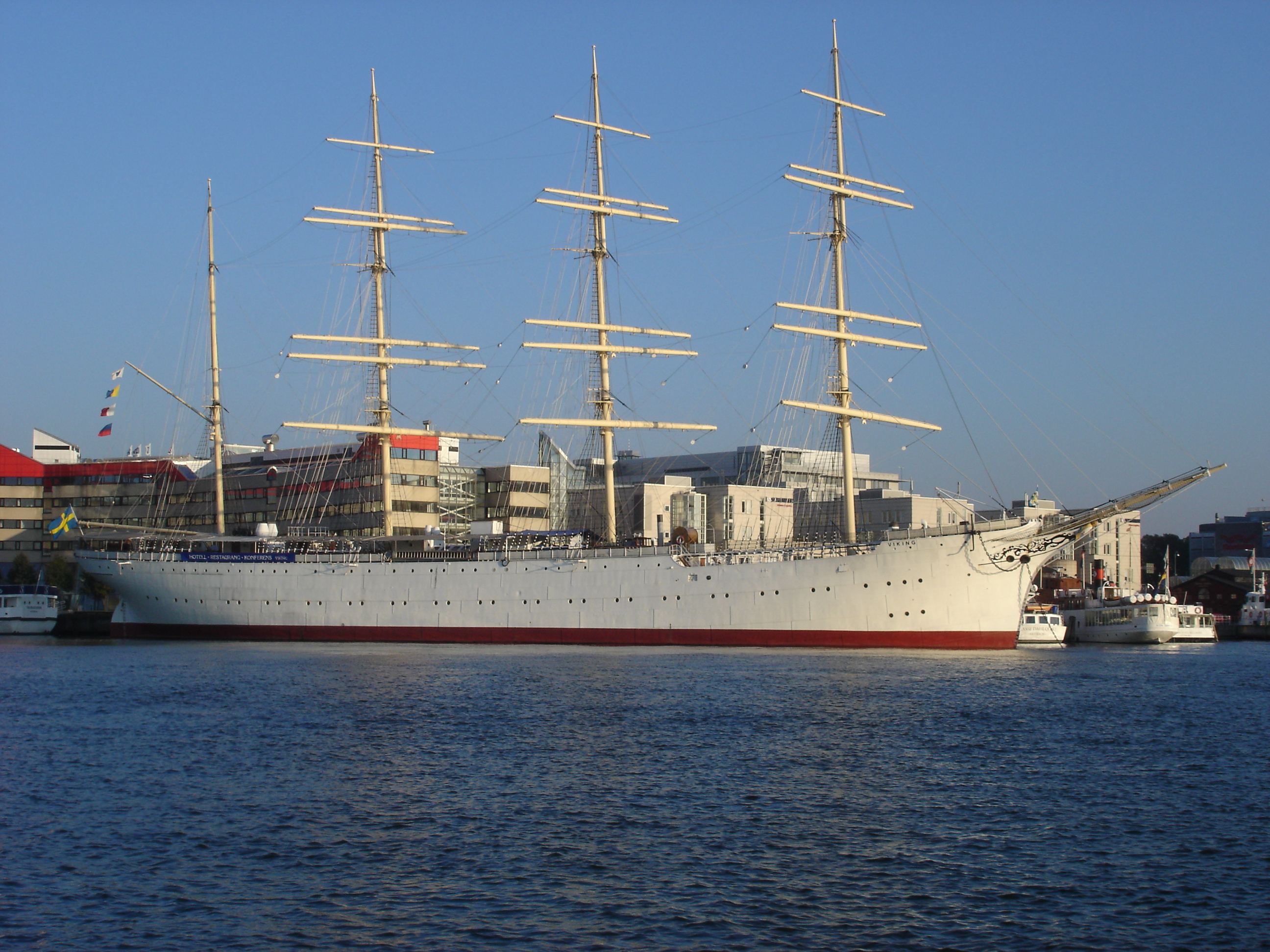 This is a locally famous ship in Gothenburg called Viking (but it's usually referred to as Barken Viking even though Bark is the ship type and not a part of its name). The ship was used for cargo (wheat etc) and it was originally built in Denmark around 1907, which is rather late considering that a lot of cargo was already being hauled by motorized ships at this time. In this picture the ship is moored at Lilla Bommen where it's likely stay for a very long time because its masts are higher than one of the bridges (Älvsborgsbron, 45m, built 1966) that it needs to pass to reach the ocean. The ship used to house a school for maritime chefs but today it's used as a hotel, restaurant and conference center. Location: Lilla Bommen, Gothenburg, Sweden. Camera: Sony Cybershot DSC-W1 (see EXIF below)